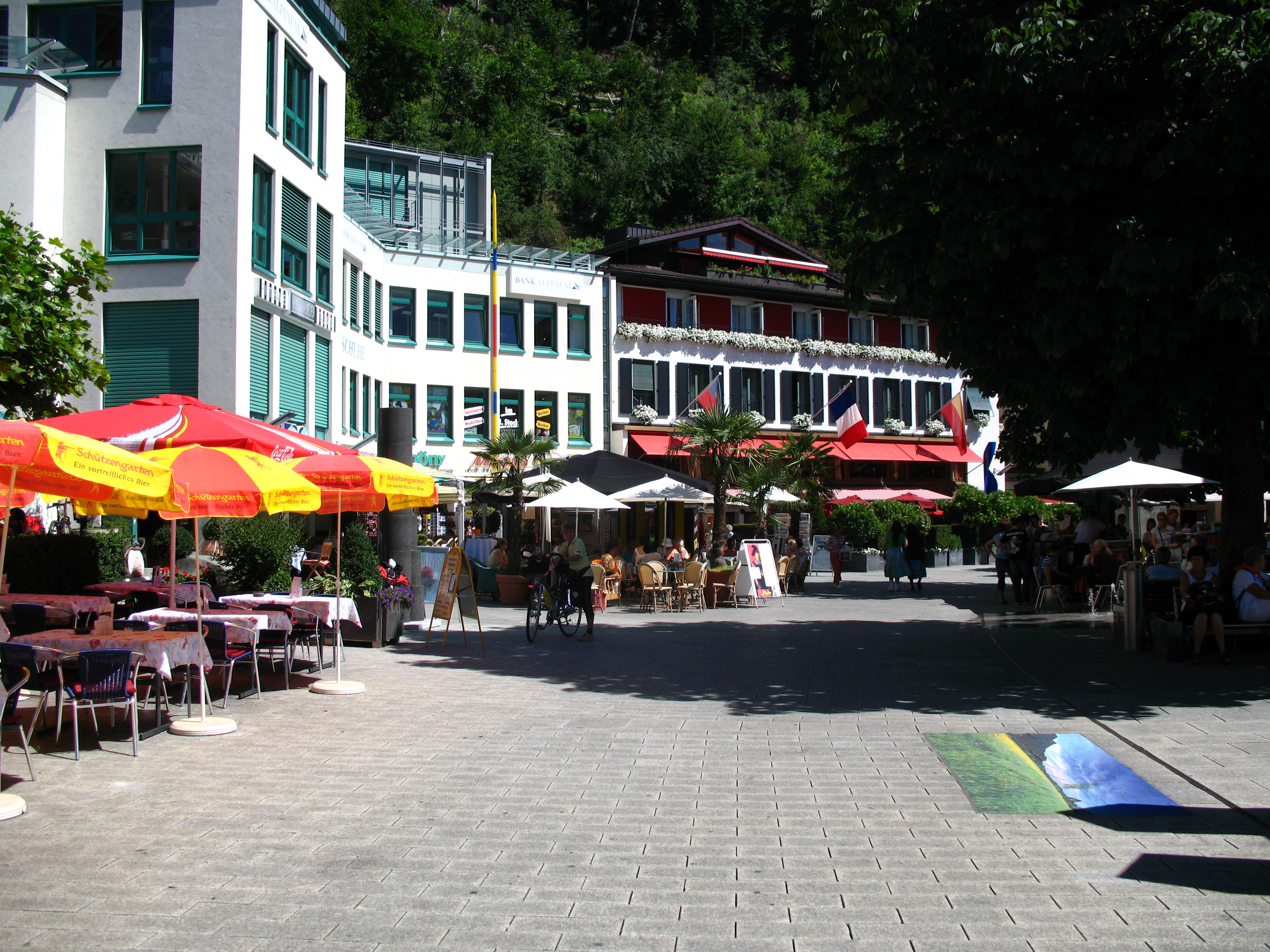 City center, Vaduz, Liechtenstein